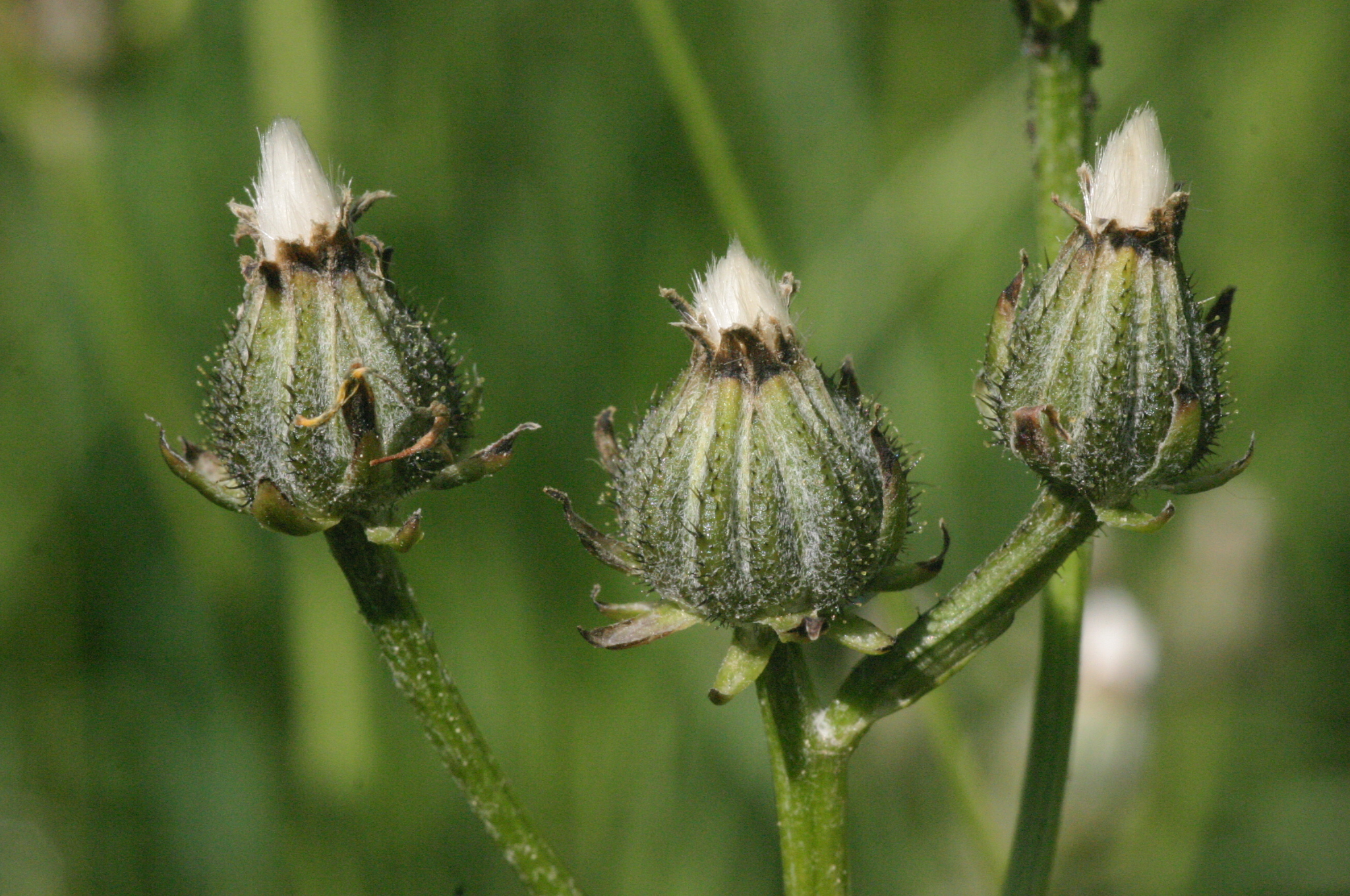 Crepis biennis